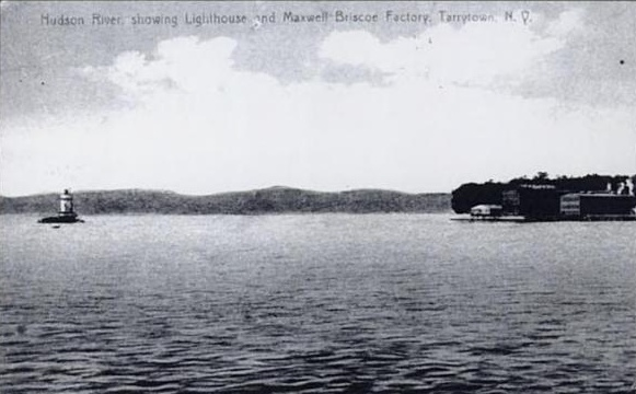 Postcard showing Tarrytown Light and the Tarrytown shore of the Hudson River in early 20th century, prior to buildup of land that put shore right next to light